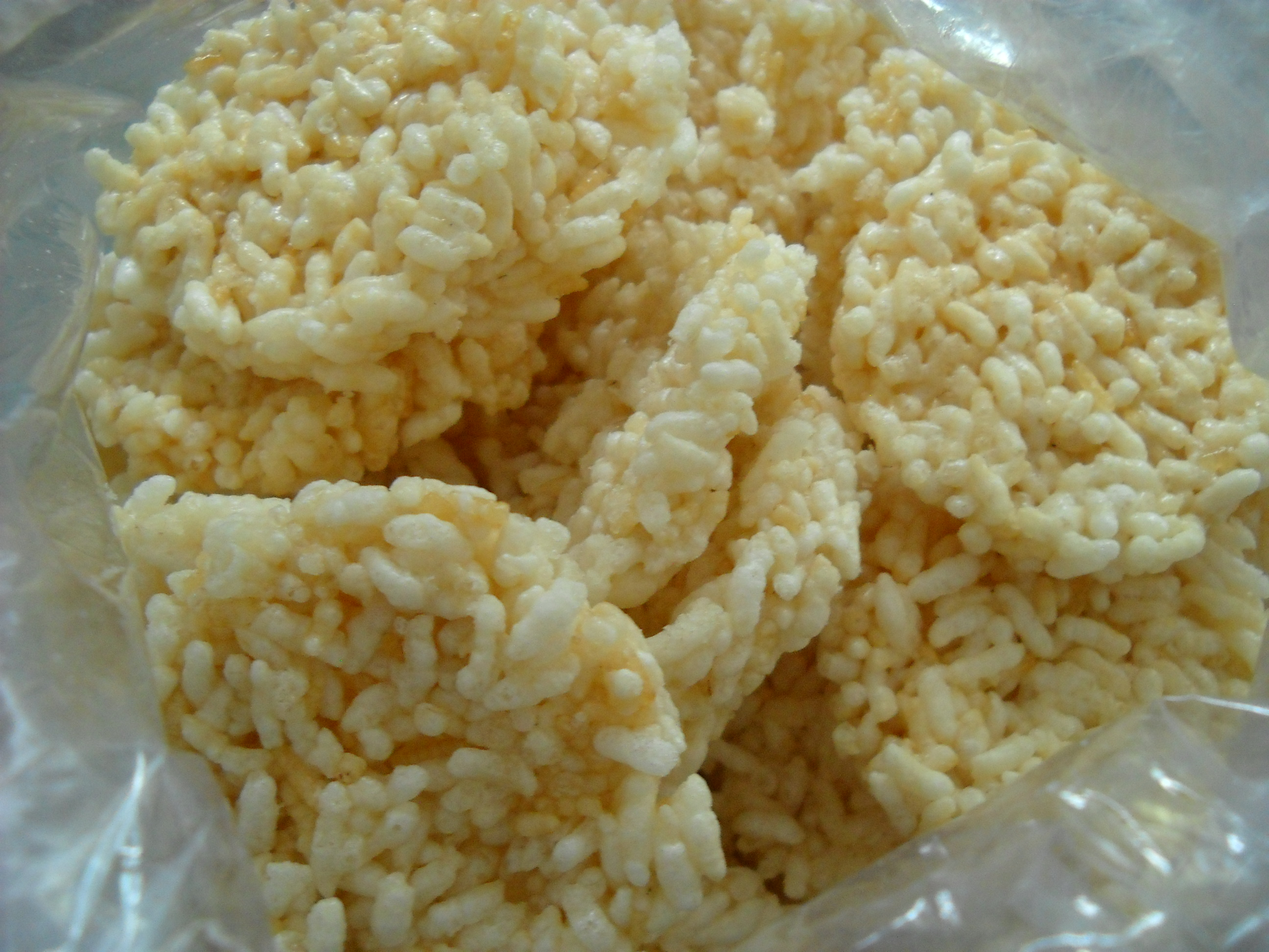 Rengginang, Indonesian snack made of deepfried rice.